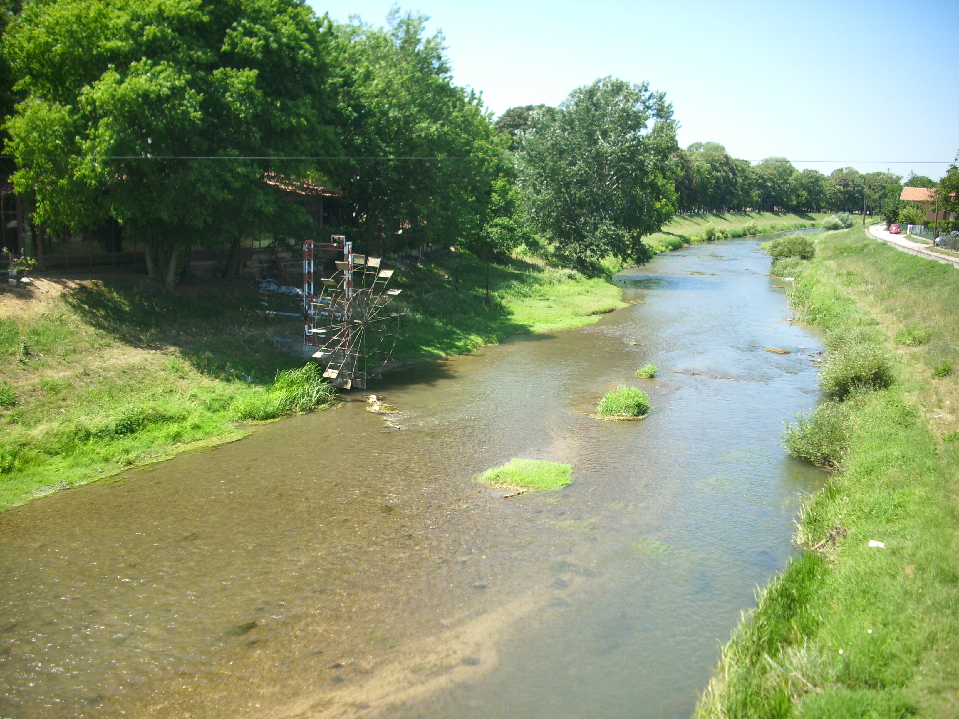 River Mlava in Petrovac